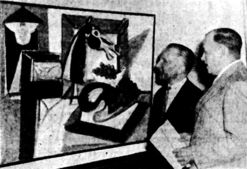 Governor of New South Wales Sir John Northcott and the French Ambassador Louis Roche at French Painting Today, Sydney 1953